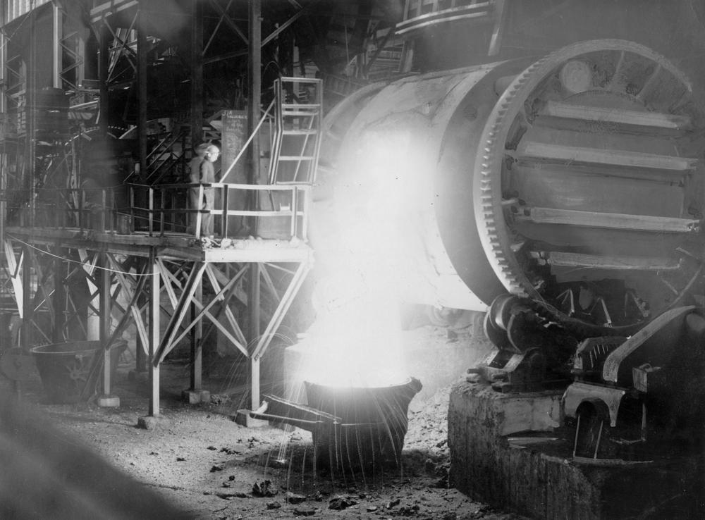 Inside the smelting works at Mount Isa, 1954 Operating the smelter.